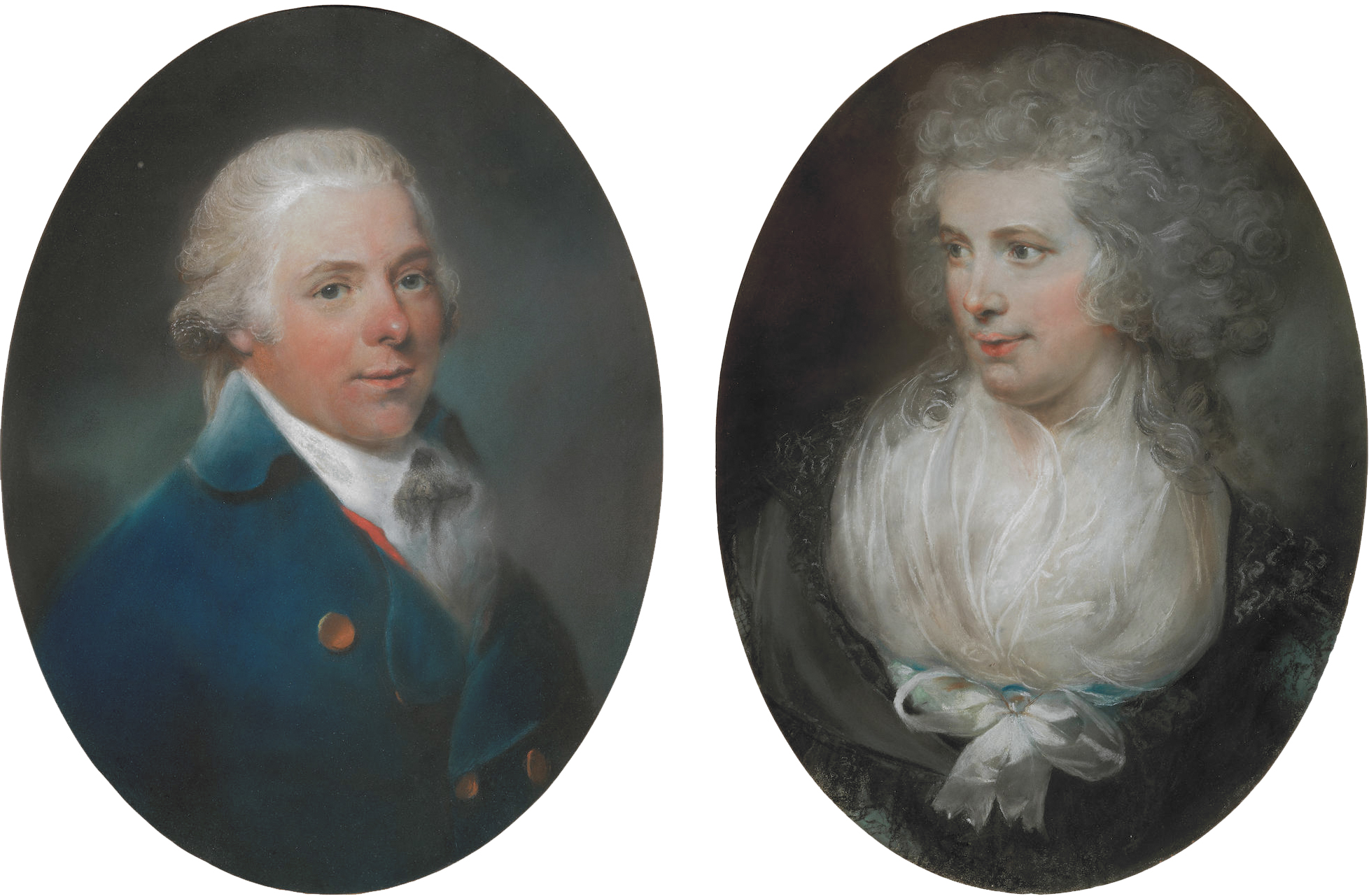 Charles Elliott (1752-1826) and his wife Eling Venn pastel on paper 59.4 x 44cm 59.8 x 44cm signed c.r.: J. Russell R.A. pt/ 1789